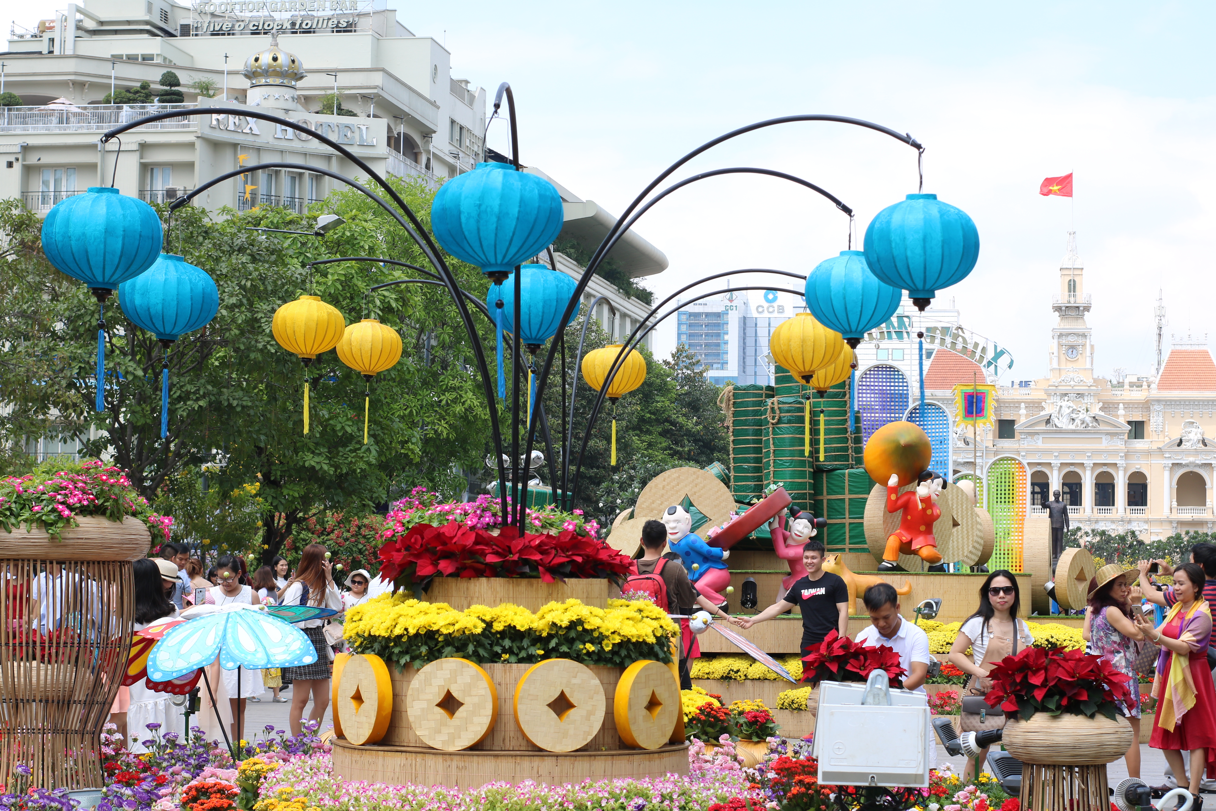 Nguyen Hue Street in Tet Festival